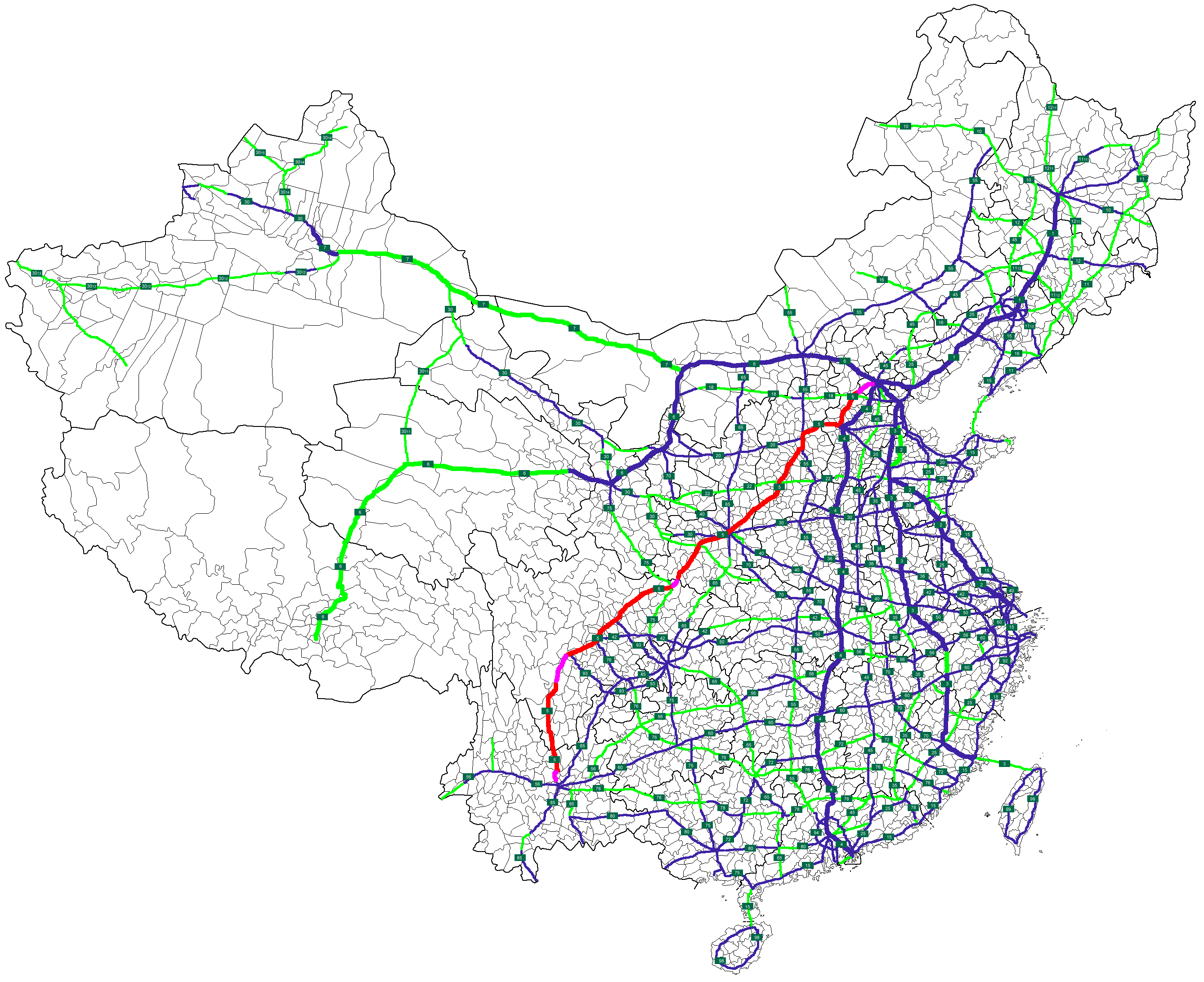 Source file(Map of NTHS Expressways of China.png) was uploaded ASDFGH at en.wikipedia. Later version(s) were uploaded by Nima Farid at en.wikipedia. Modification for NTHS Expressway G5 is my own work.